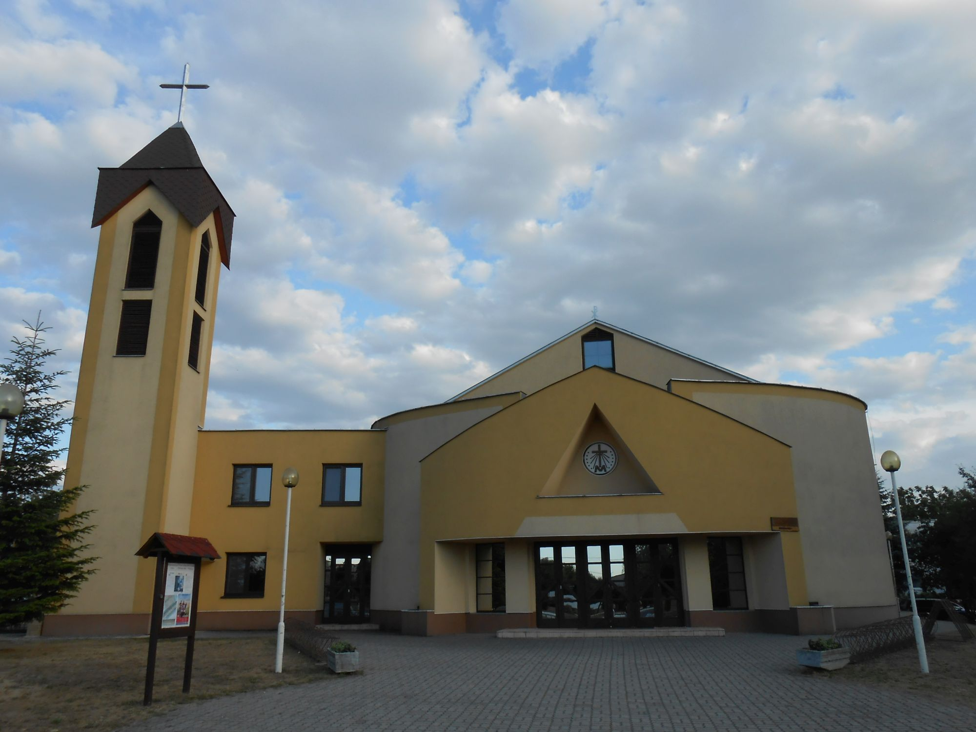 Church of the Assumption of the Virgin Mary in Nižný Hrabovec